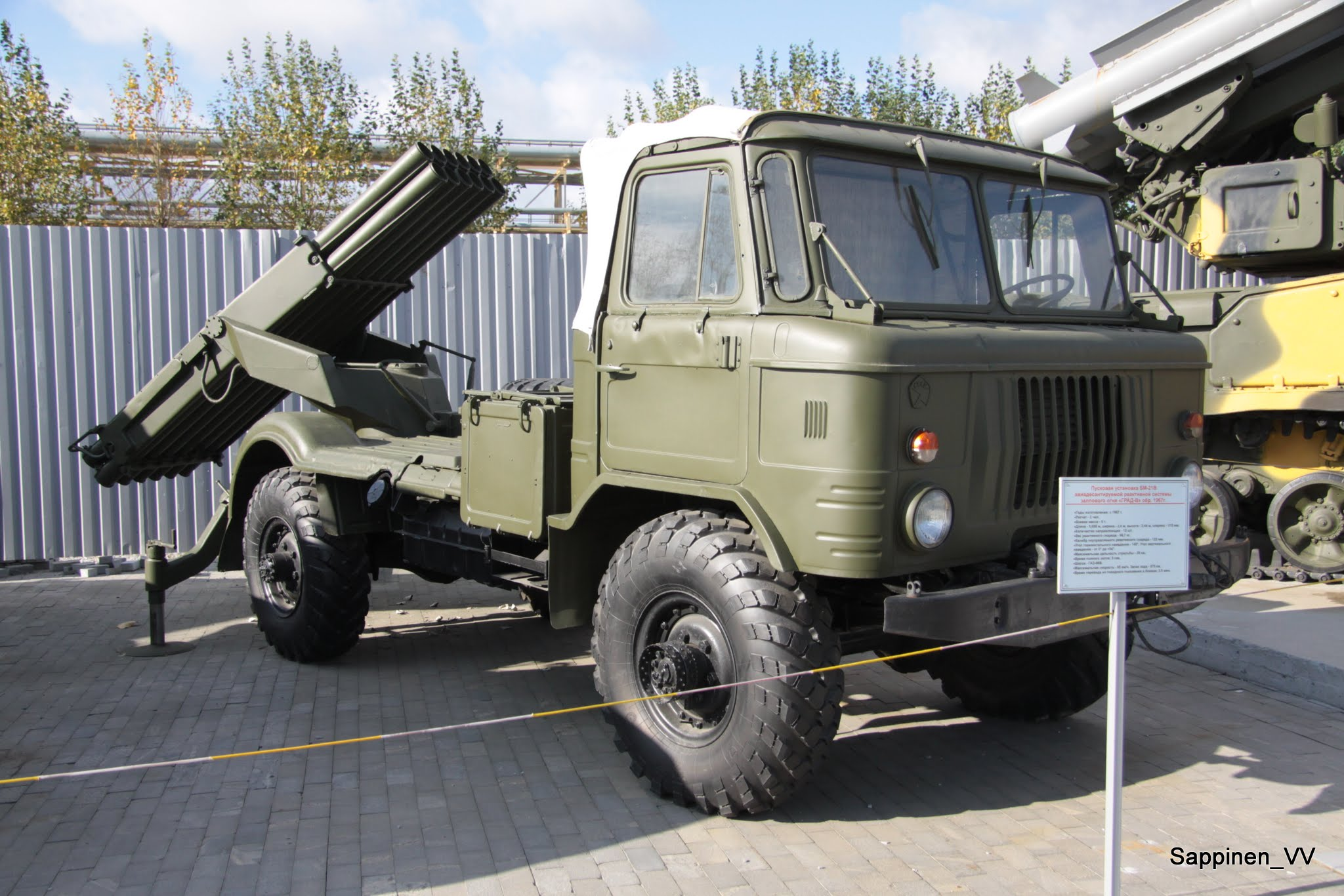 Verkhnyaya Pyshma Tank Museum 2012